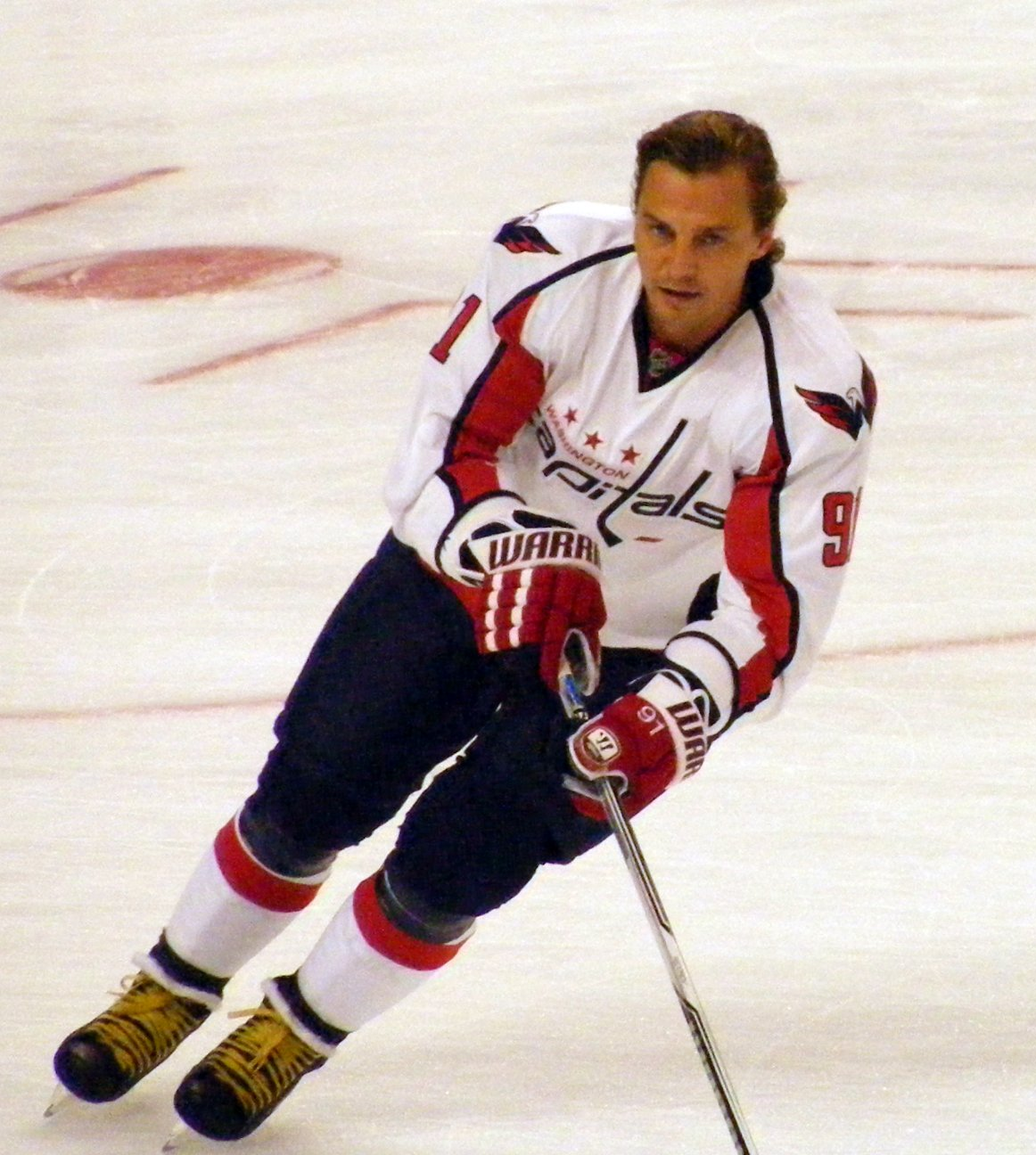 Sergei Fedorov, Washington Capitals vs Boston Bruins, September 27, 2008